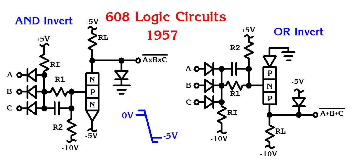 AND Invert and OR Invert DTL logic circuits packaged on IBM 608 cards. 1957.